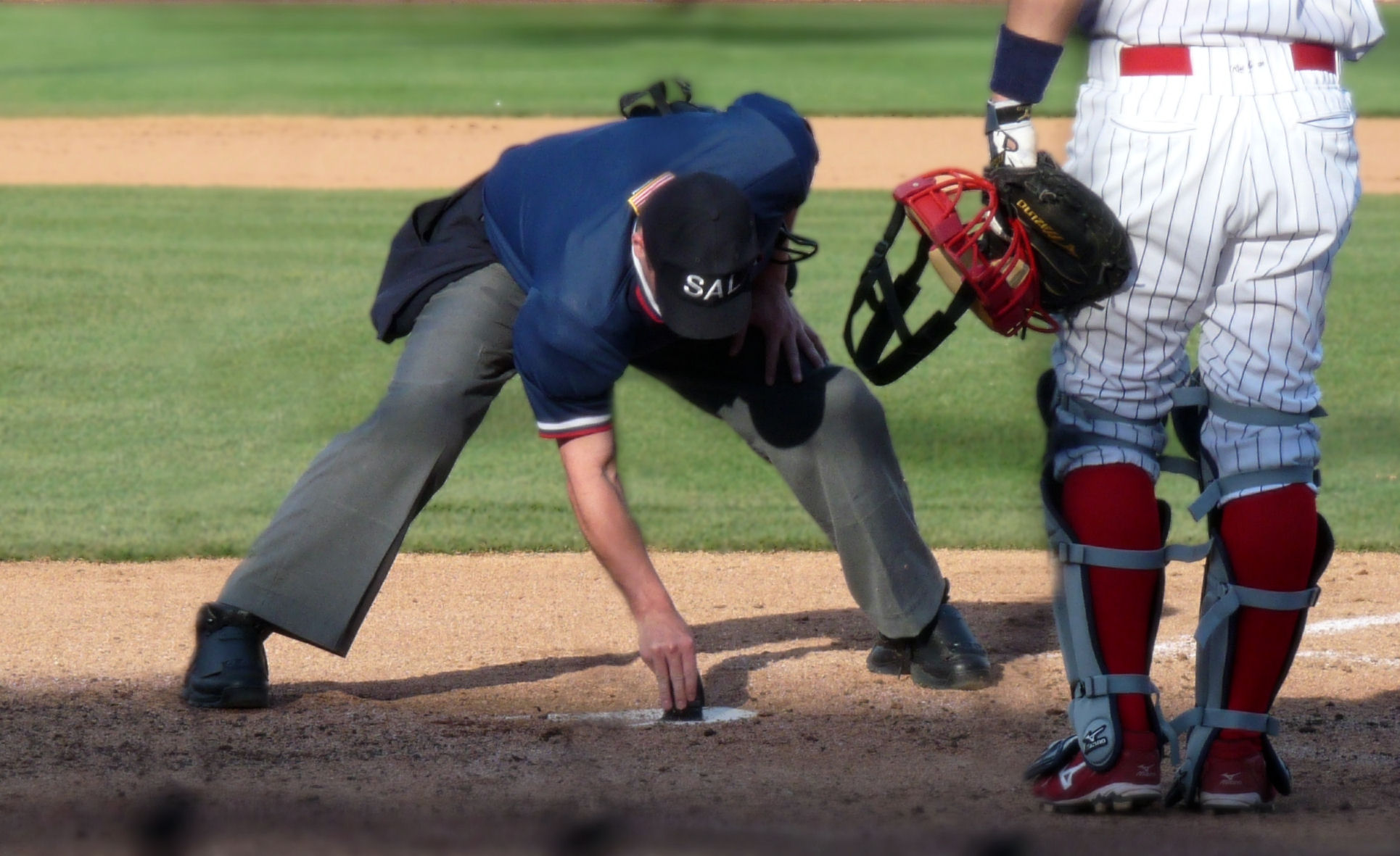 Single A minor league Lakewood Blueclaws. Web sites using this photo